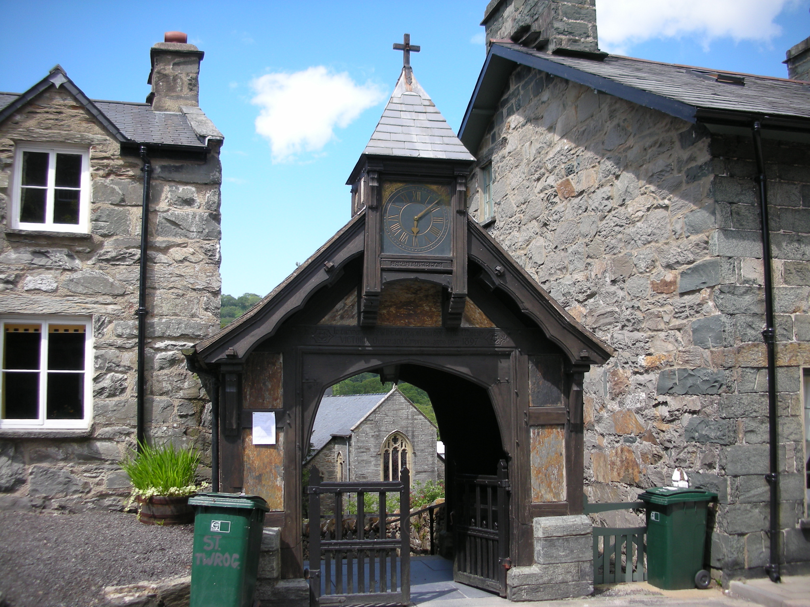 St Twrogs Church Lychgate